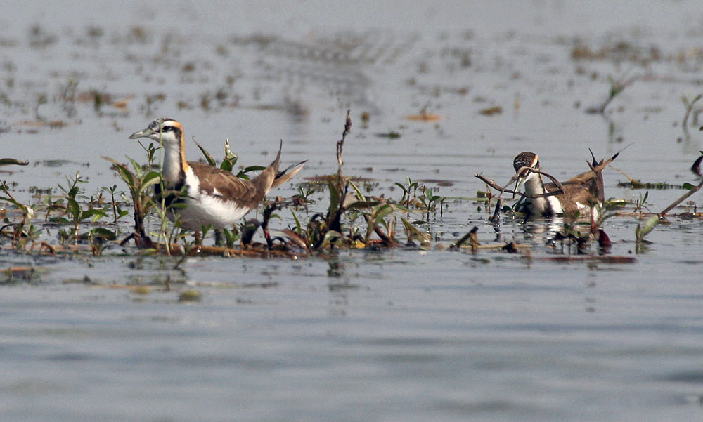 Pheasant-tailed Jacana Hydrophasianus chirurgus at Purbasthali in Bardhaman District of West Bengal, India.